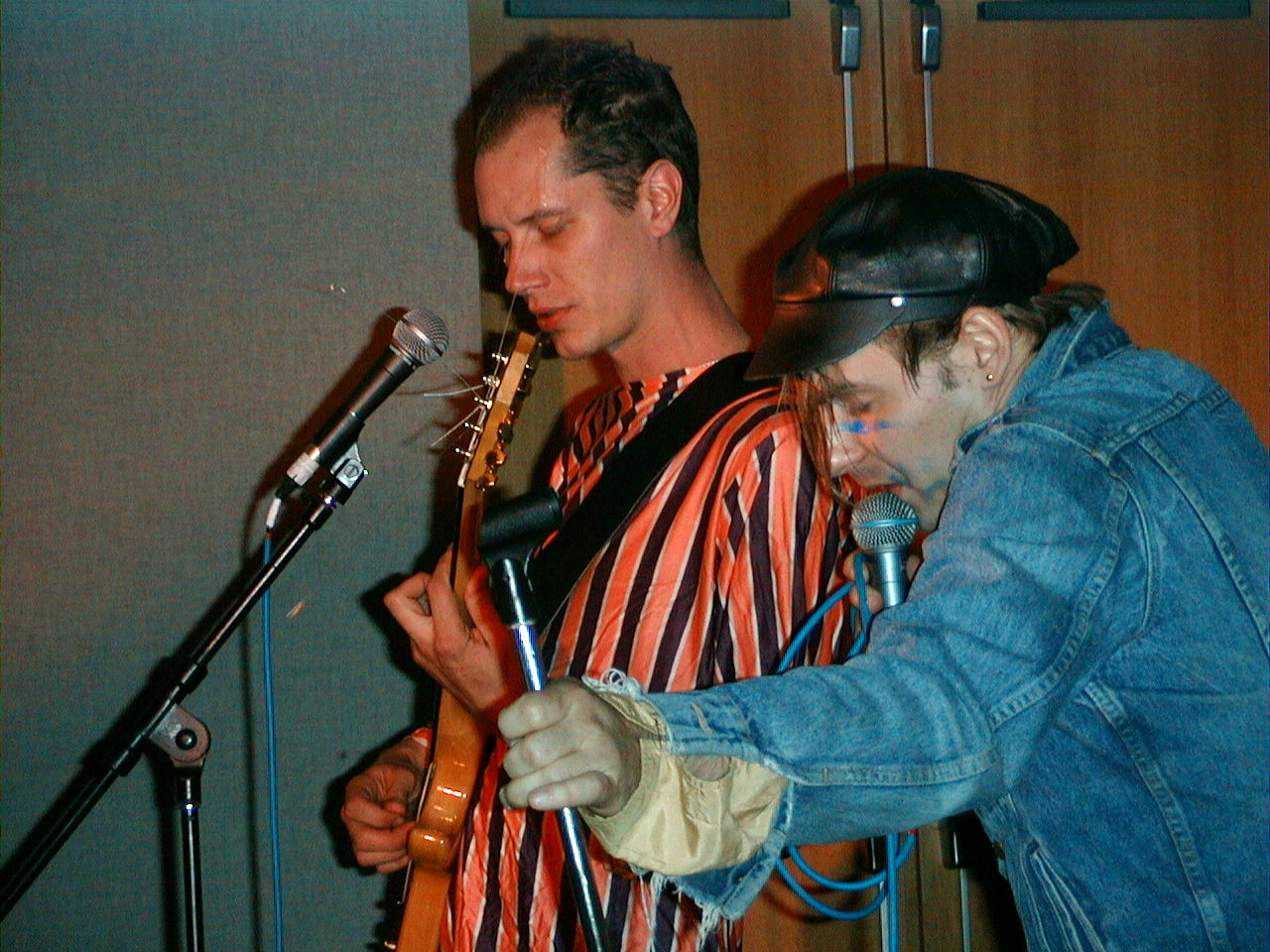 The band U.S. Maple playing at Carnegie Mellon University in September 1999.